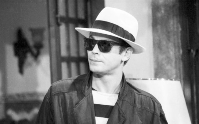 Boa pinta